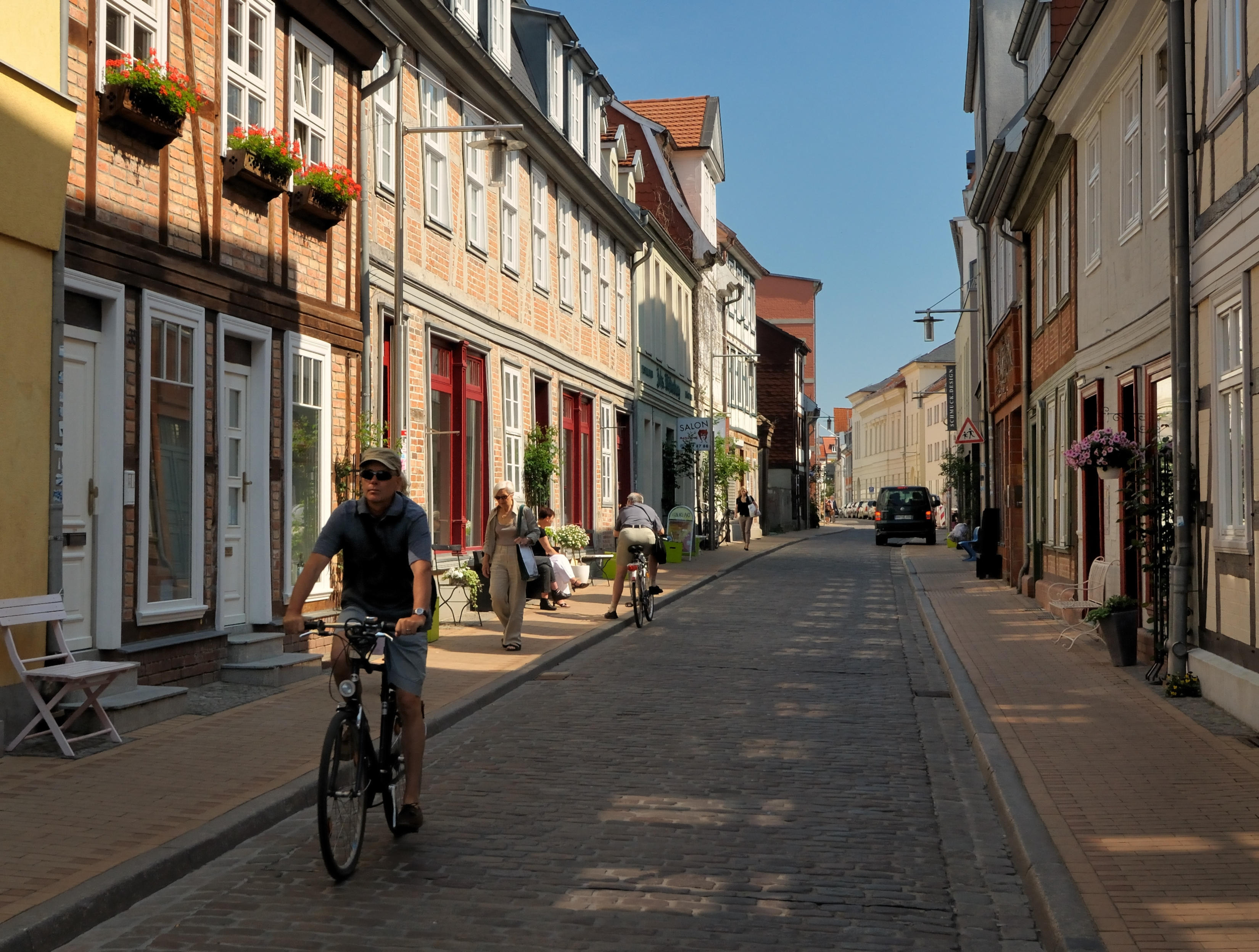 Schwerin, Schelfstadt, Street Münzstraße